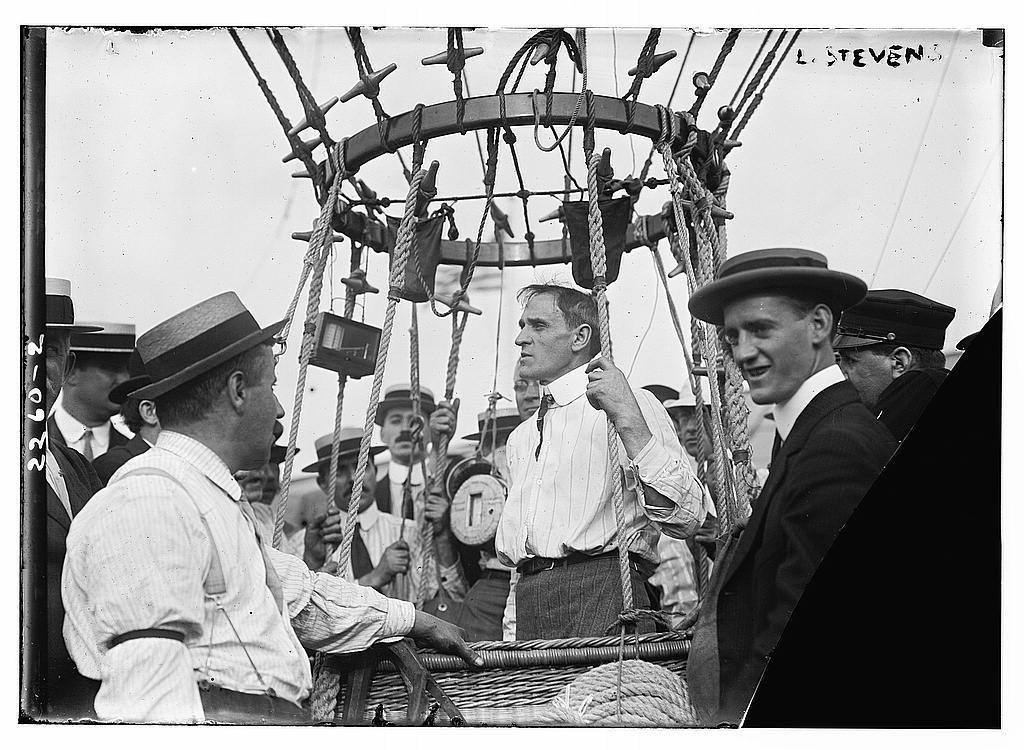 Bain News Service,, publisher. Albert Leo Stevens at Wanamaker's at Broadway and Tenth Street in Manhattan on July 8, 1910 [between 1910 and 1915] 1 negative : glass ; 5 x 7 in. or smaller. Notes: Title from unverified data provided by the Bain News Service on the negatives or caption cards. Forms part of: George Grantham Bain Collection (Library of Congress). Subjects: Balloons (Aircraft) Format: Glass negatives. Repository: Library of Congress, Prints and Photographs Division, Washington, D.C. 20540 USA, General information about the Bain Collection is available at Persistent URL: Call Number: LC-B2- 2260-2